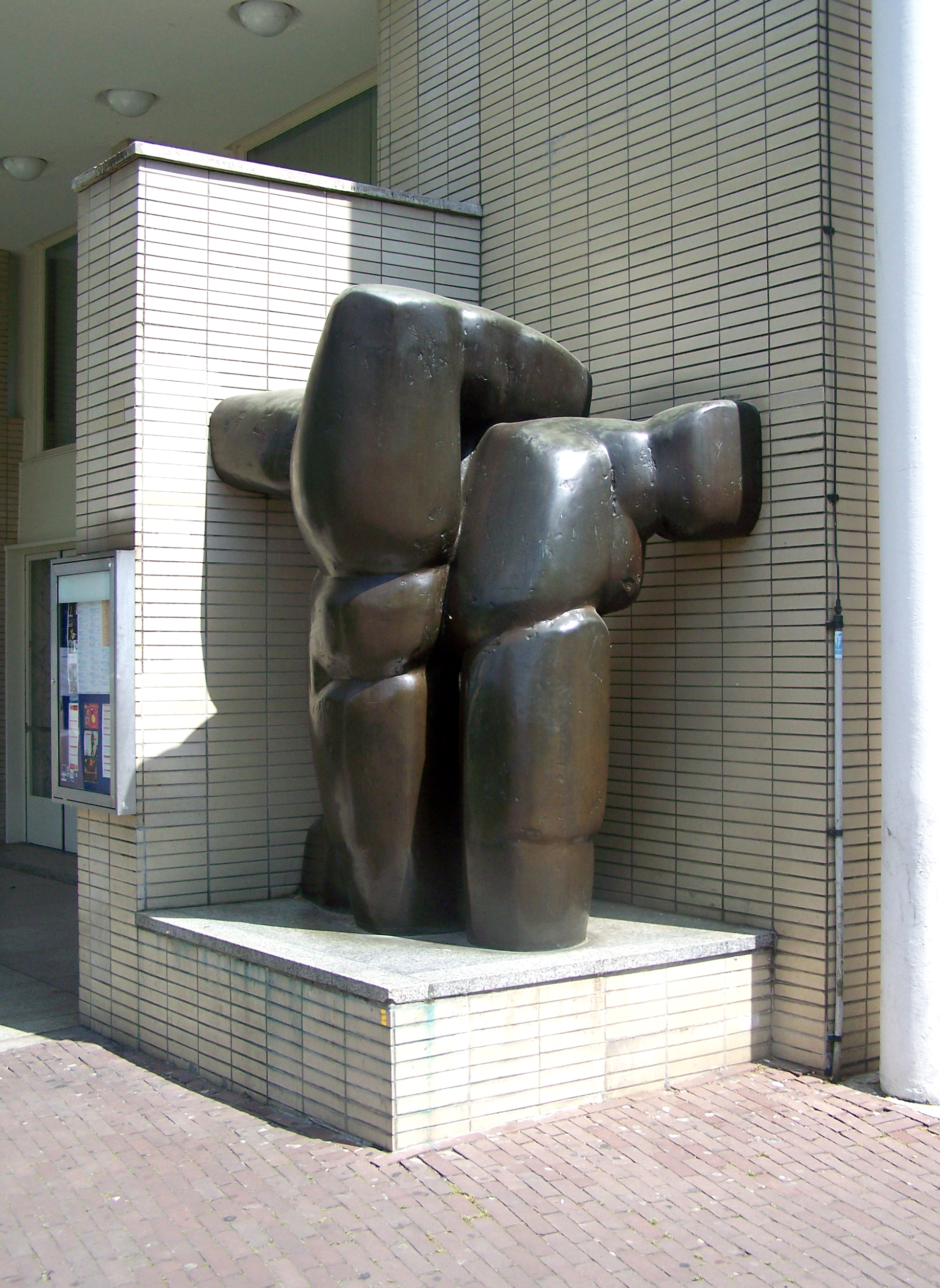 Sculpture made by Leo de Vries at the entrance of the city theater (Stadsschouwburg) at the Lucas Bolwerk in Utrecht.